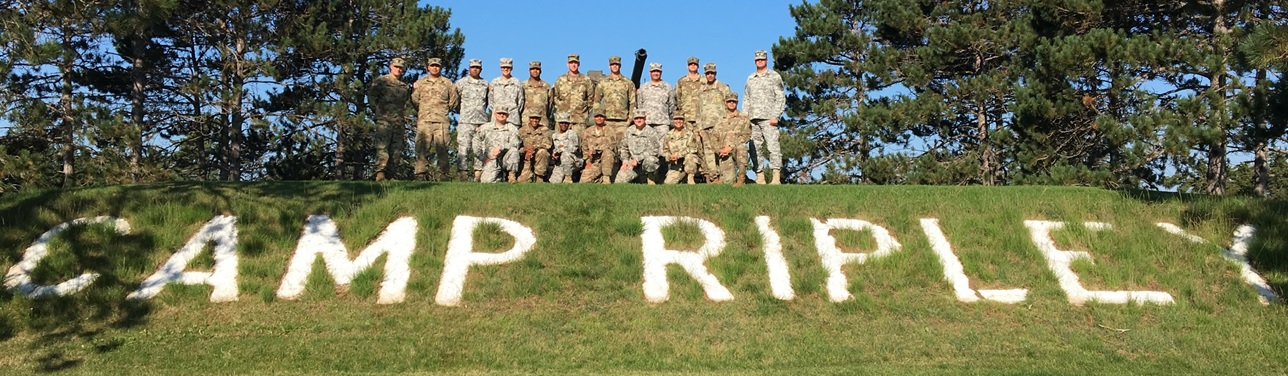 1-337th BSB after conducting Observer/Controller duties at Camp Ripley for the Combat Sustainment Training Exercise 17-86-03.